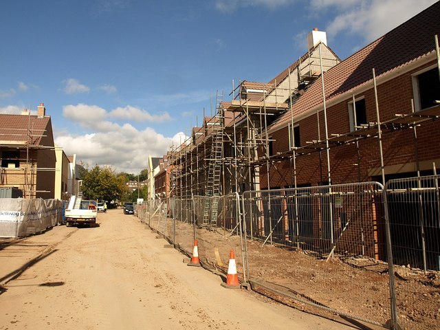 New housing, Norton Fitzwarren This is Station Road, which has dramatically changed its appearance in the last three years since the Taunton Cider Company factory closed.